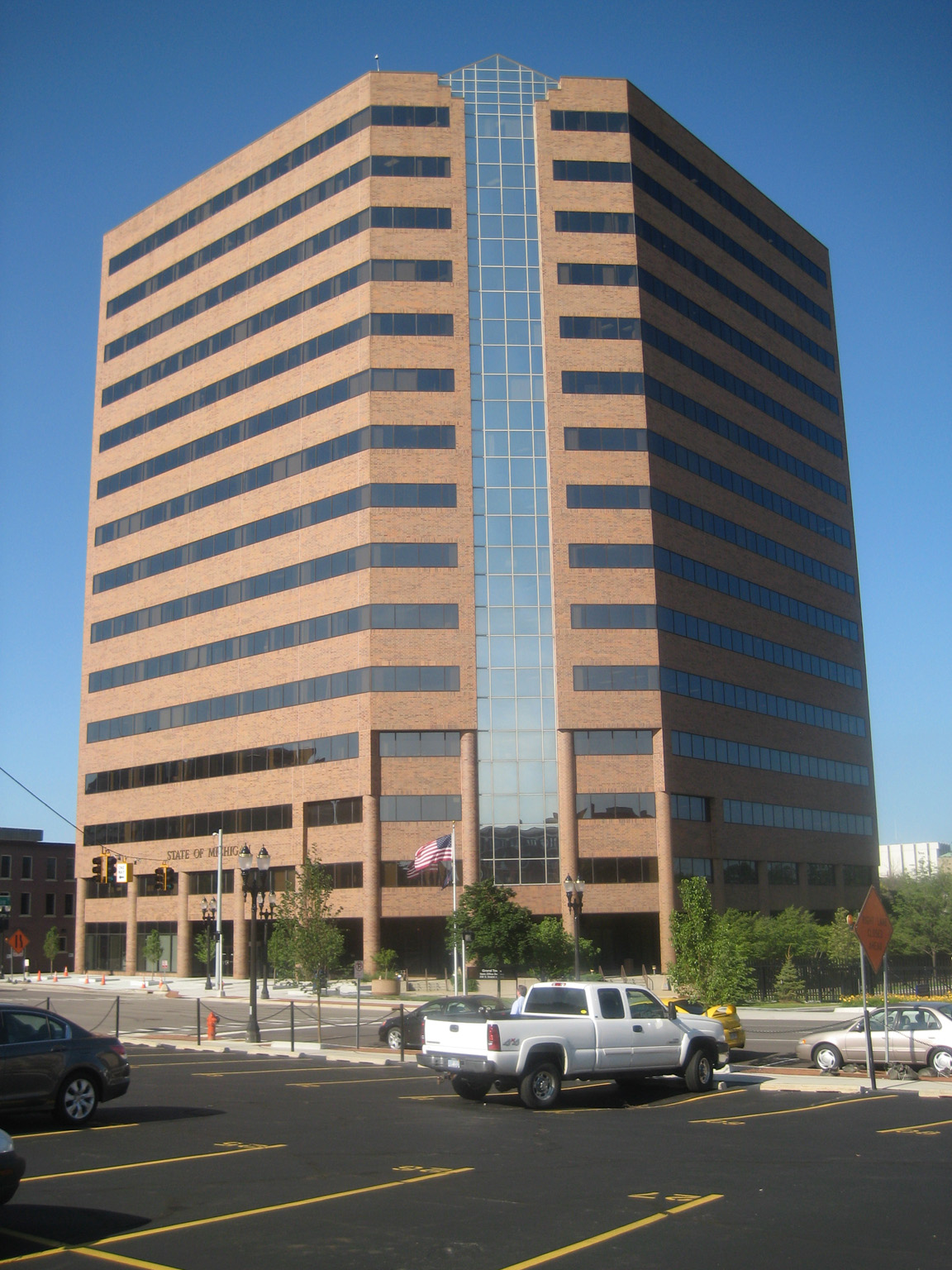 Grand Tower at 235 South Grand Avenue in downtown Lansing, Michigan. The 16-story State of Michigan office building opened in 1991.